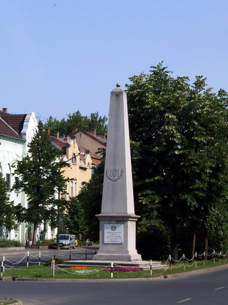 The war memorial of division nr. 101 in Békéscsaba